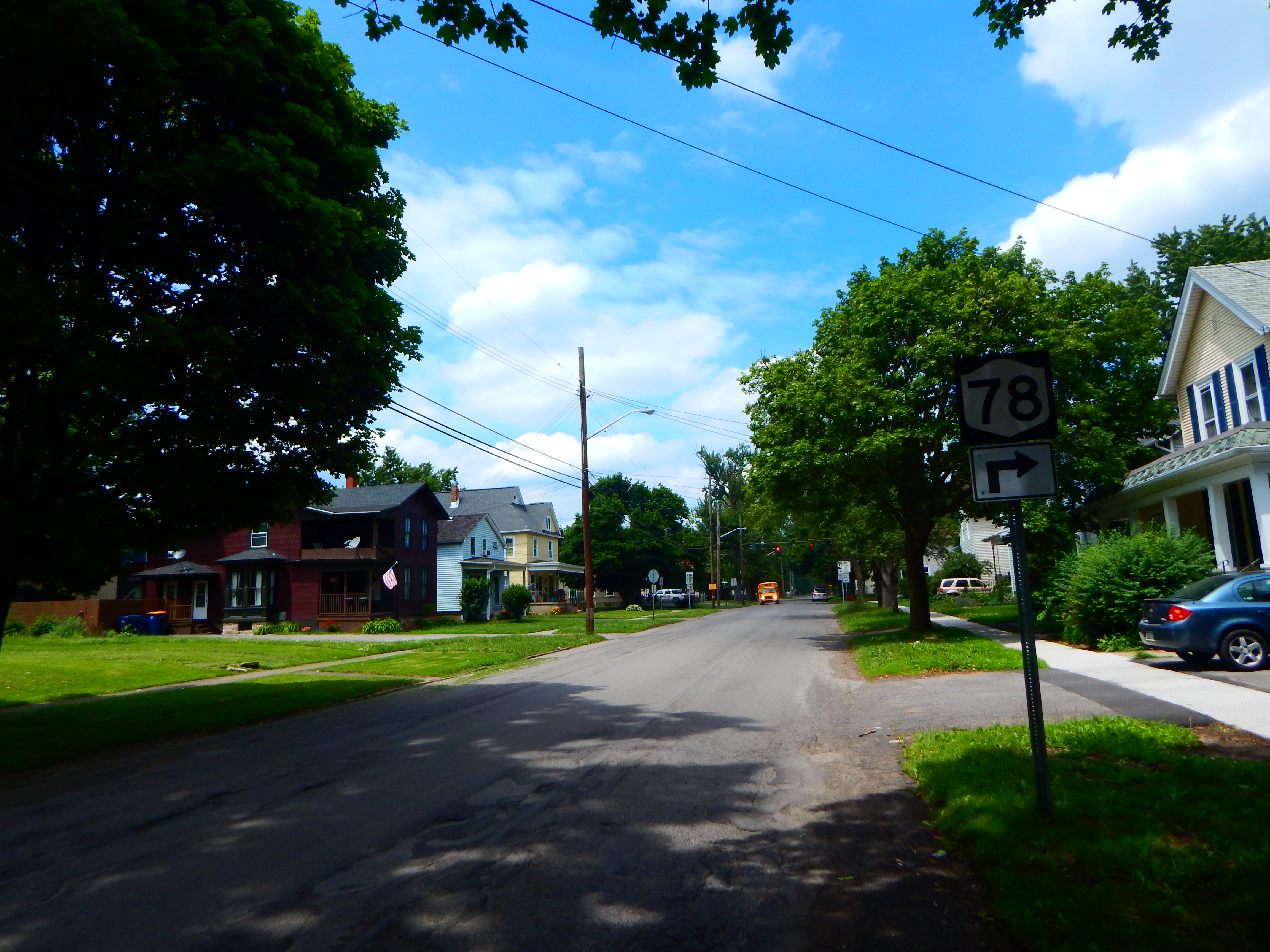 Route 78 northbound through Lockport, New York.